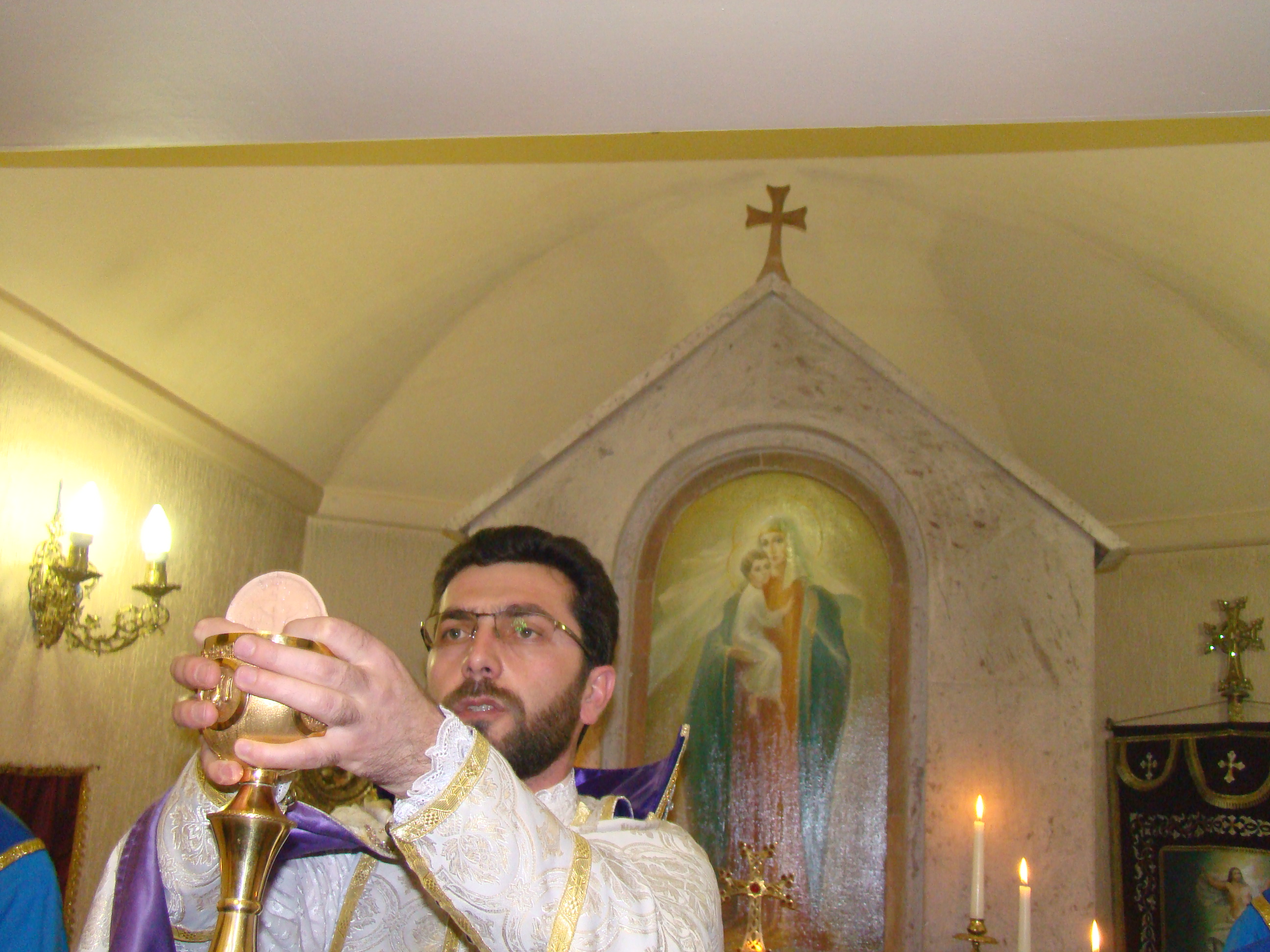 Service in Armenian Church Sourb Gevorg in Volgograd